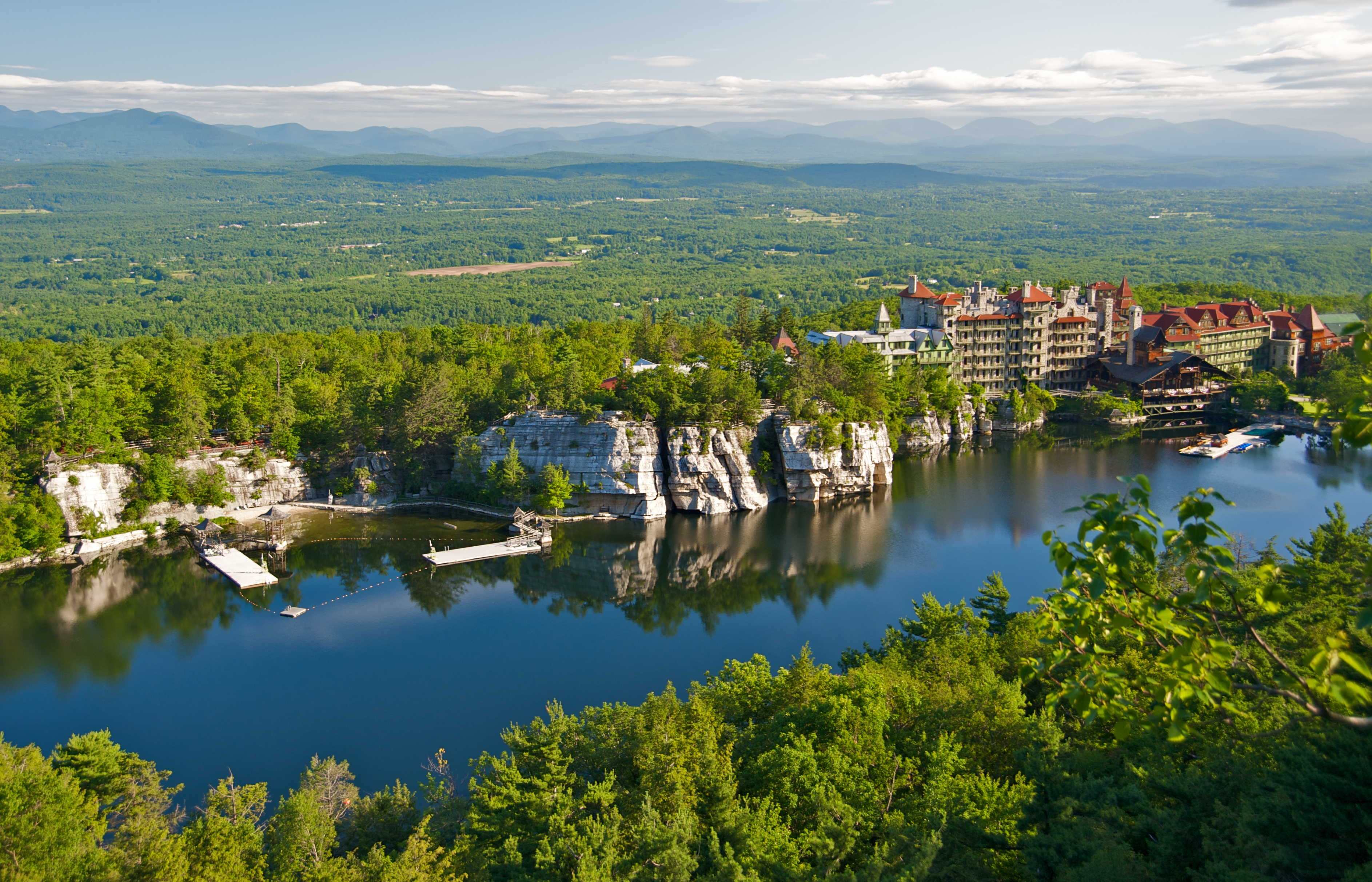 View of the Lake Mohonk seen from one of many hiking trails at Mohonk Mountain House